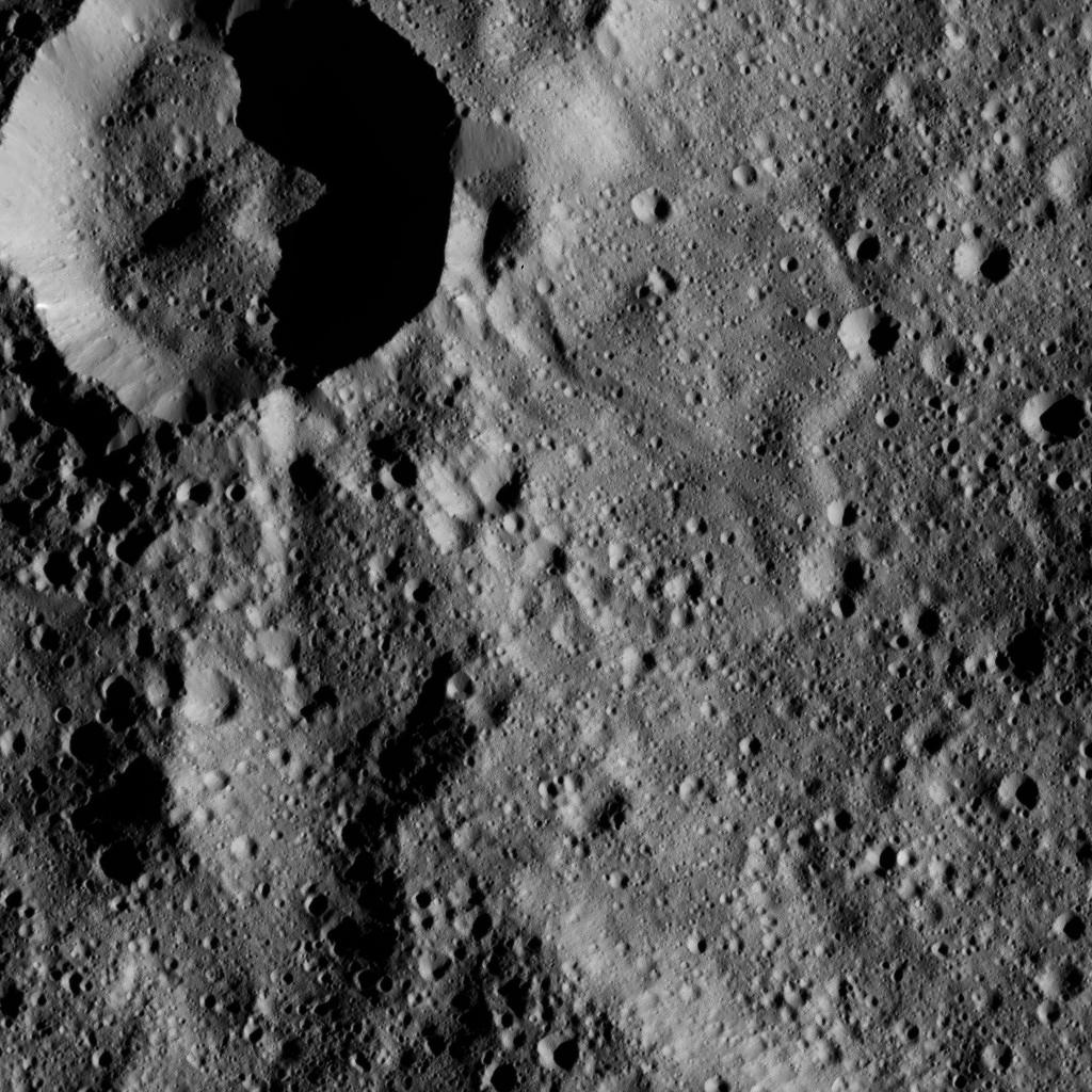 PIA20856: Dawn LAMO Image 136 This view from NASA's Dawn spacecraft shows terrain in the southern hemisphere of Ceres. Most of the image is the impact crater named Annona (37 miles, 60 kilometers across); the smaller, prominent crater at upper left is unnamed. Dawn took this image on June 7, 2016, from its low-altitude mapping orbit, at a distance of about 240 miles (385 kilometers) above the surface. The image resolution is 120 feet (35 meters) per pixel. Dawn's mission is managed by JPL for NASA's Science Mission Directorate in Washington. Dawn is a project of the directorate's Discovery Program, managed by NASA's Marshall Space Flight Center in Huntsville, Alabama. UCLA is responsible for overall Dawn mission science. Orbital ATK, Inc., in Dulles, Virginia, designed and built the spacecraft. The German Aerospace Center, the Max Planck Institute for Solar System Research, the Italian Space Agency and the Italian National Astrophysical Institute are international partners on the mission team. For a complete list of acknowledgments, For more information about the Dawn mission, visit